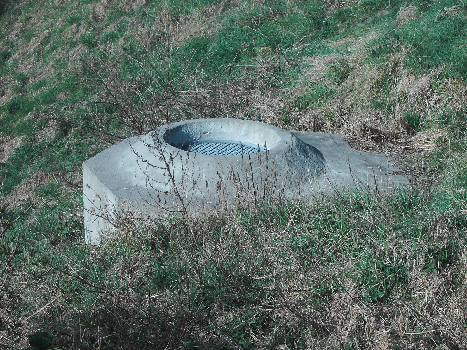 German World War II anti aircraft firing position